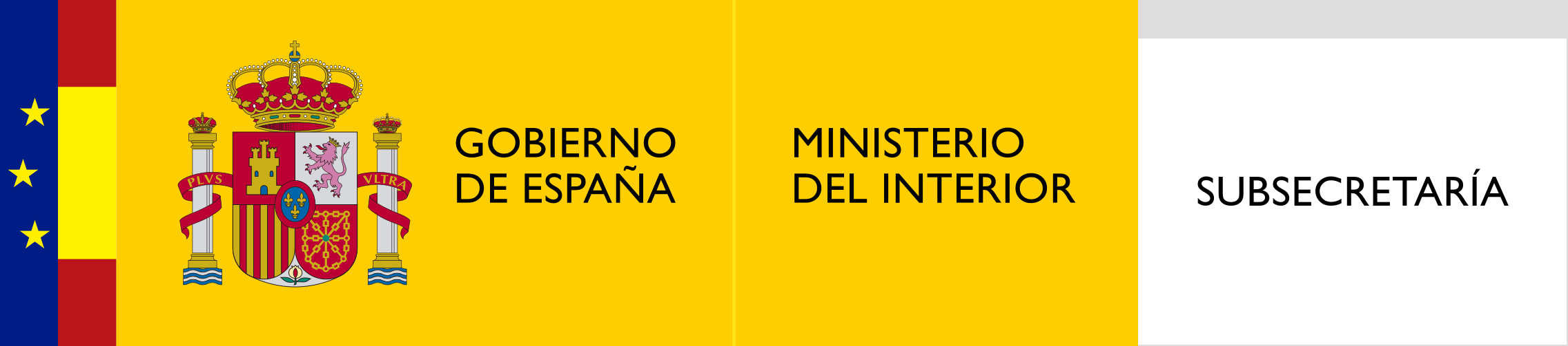 Logo of the Undersecretariat of the Interior of the Government of Spain.